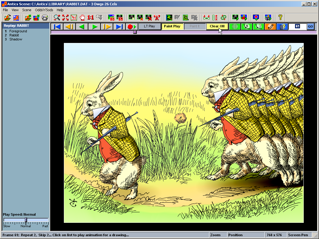 Antics 2-D Animation infobox screenshot... show screen and replay of White Rabbit run.